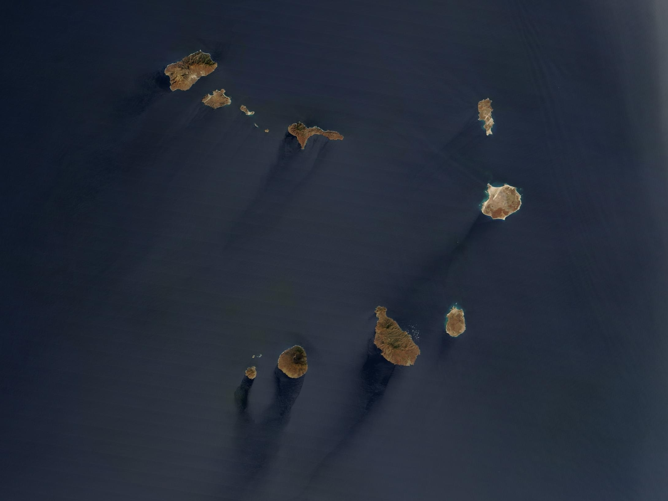 Cape Verde Islands from Terra Satellite (Pixel size: 250 m)